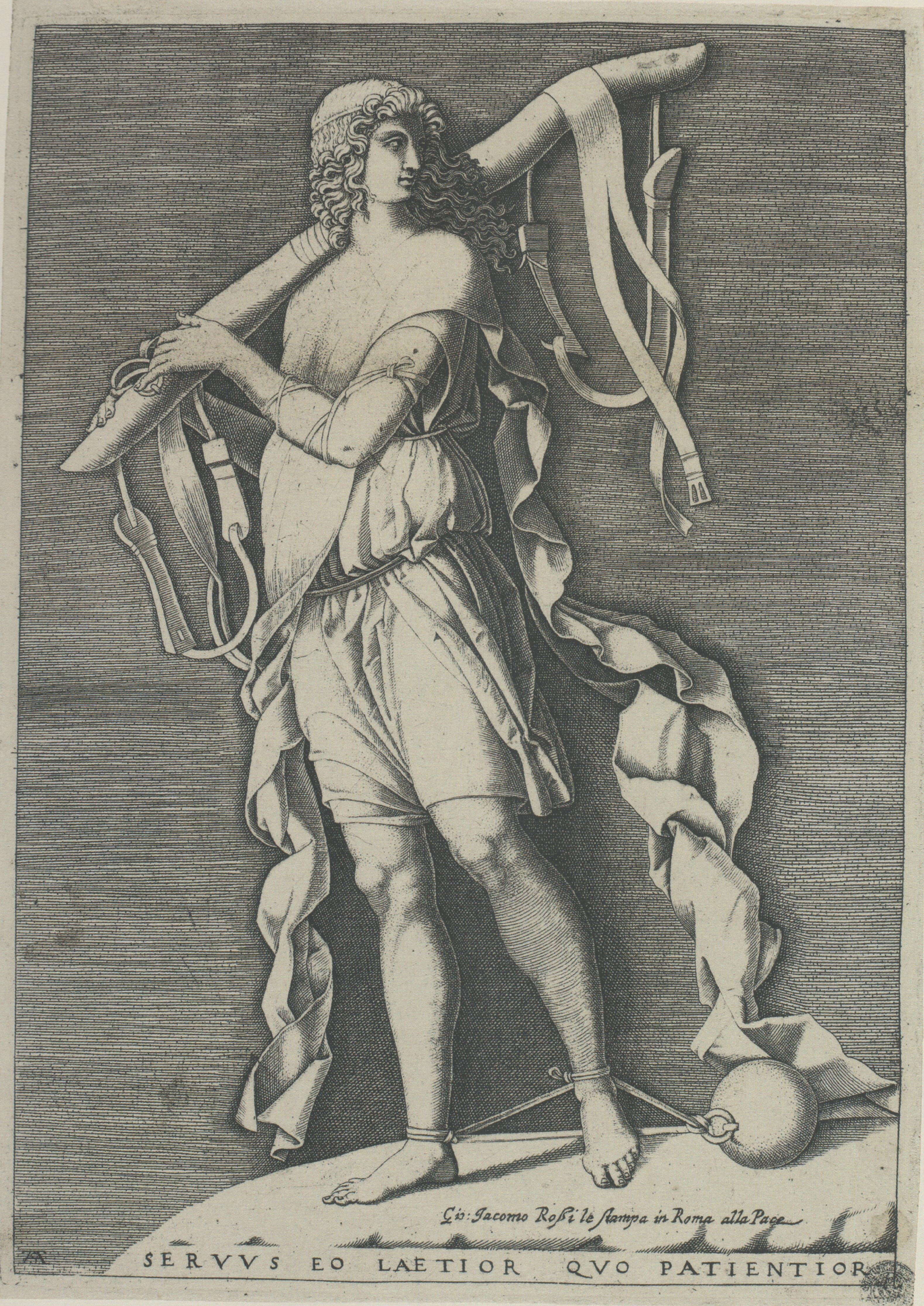 Title: SERVVS EO LAETIOR QVO PATENTIOR Translation: Slavery is happier if one is more patient